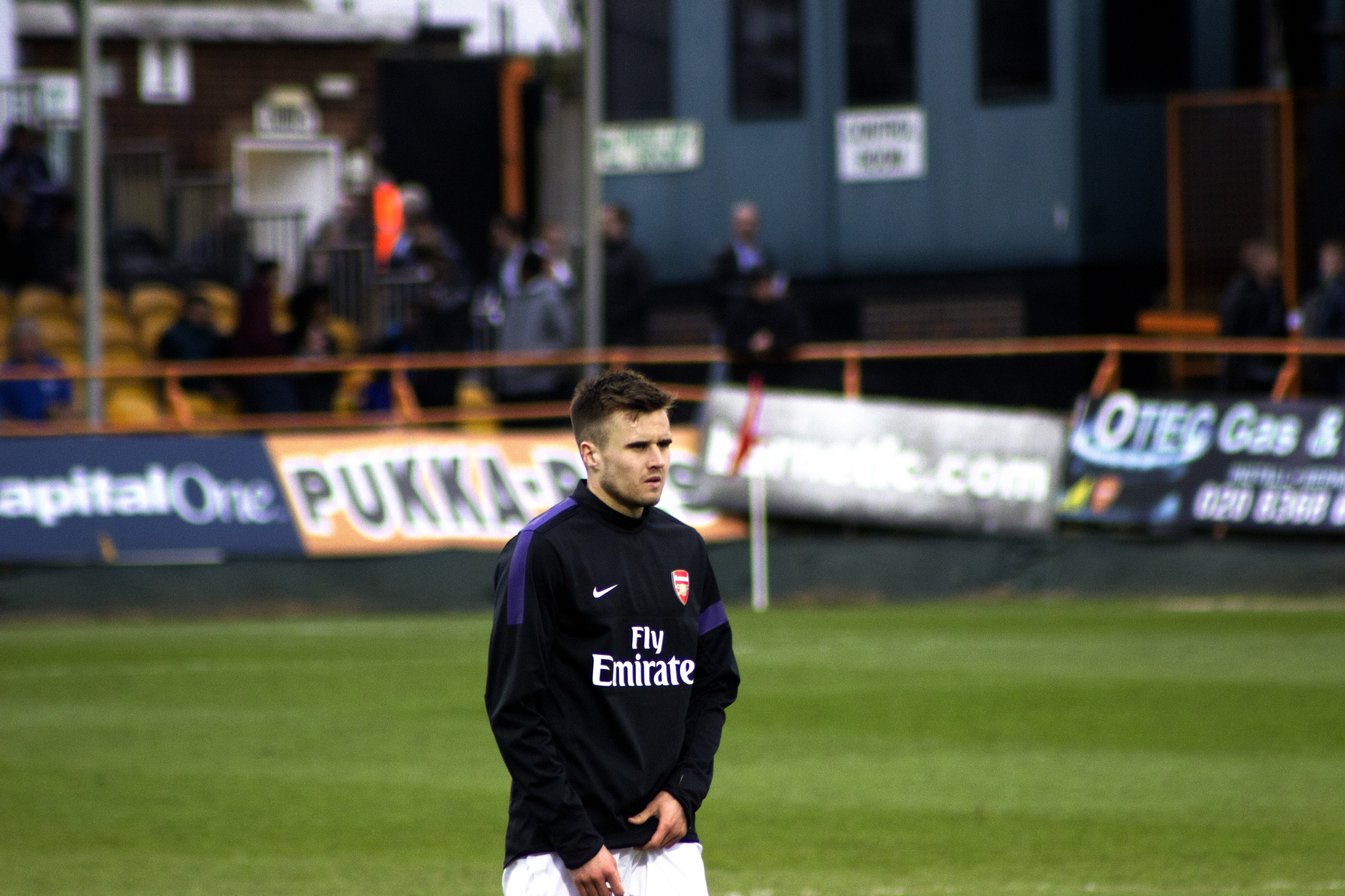 Carl Jenkinson of Arsenal Football Club; Warming up before Kick off of the U21s game VS Tottenham Hotspur